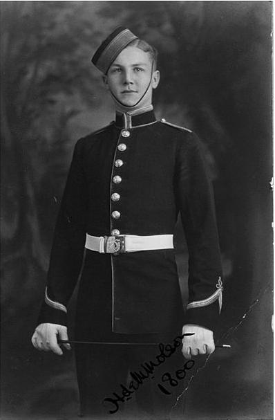 Hartland Molson, Royal Military College of Canada cadet (portrait in the 1920s)